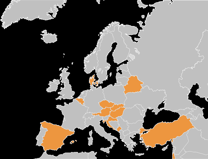 Teams of 2013 European Men's Volleyball League